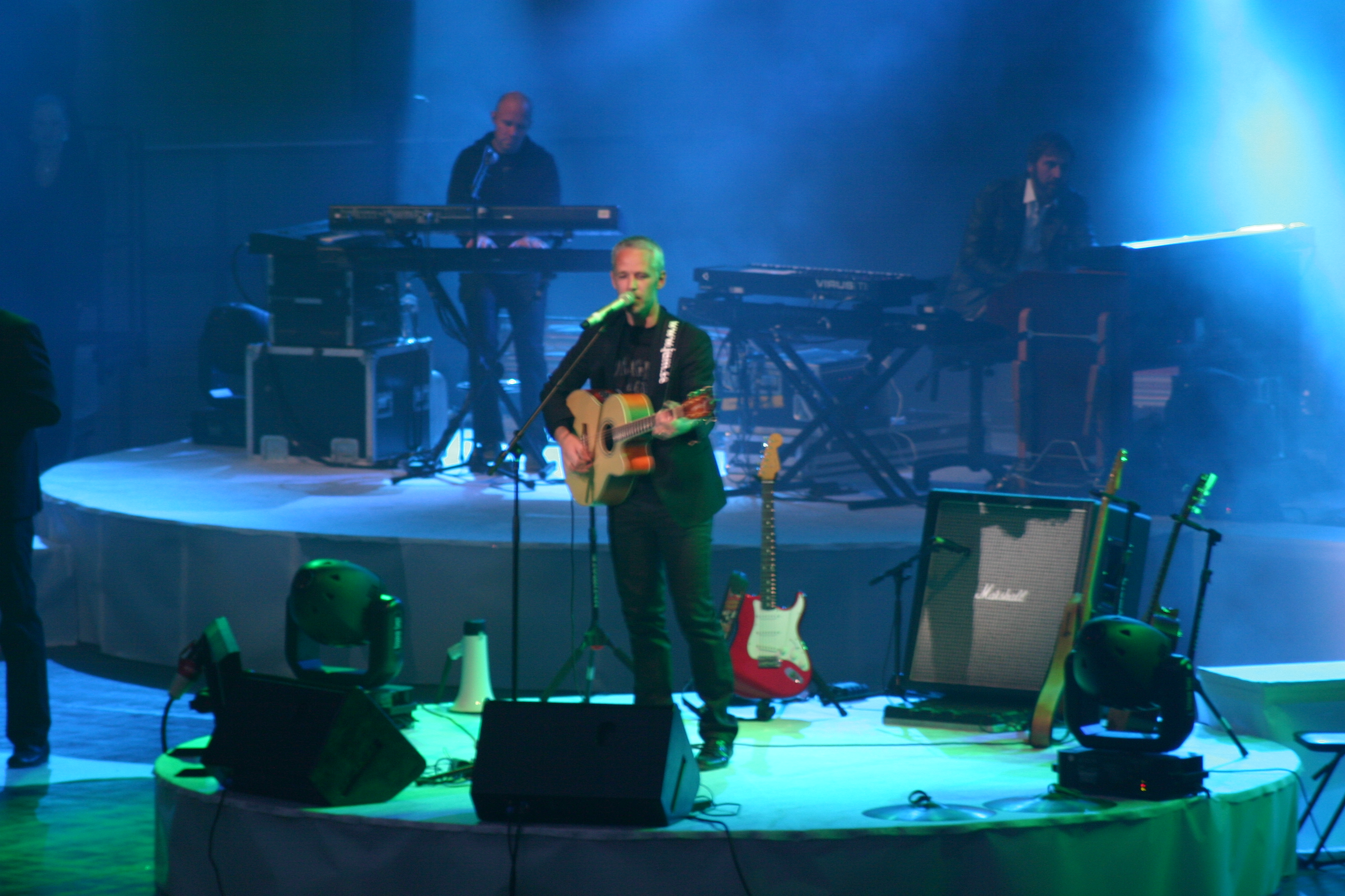 Hans Lundin, guitarr and vocal, in the Swedish Pink Floyd tribute band "P-Floyd"